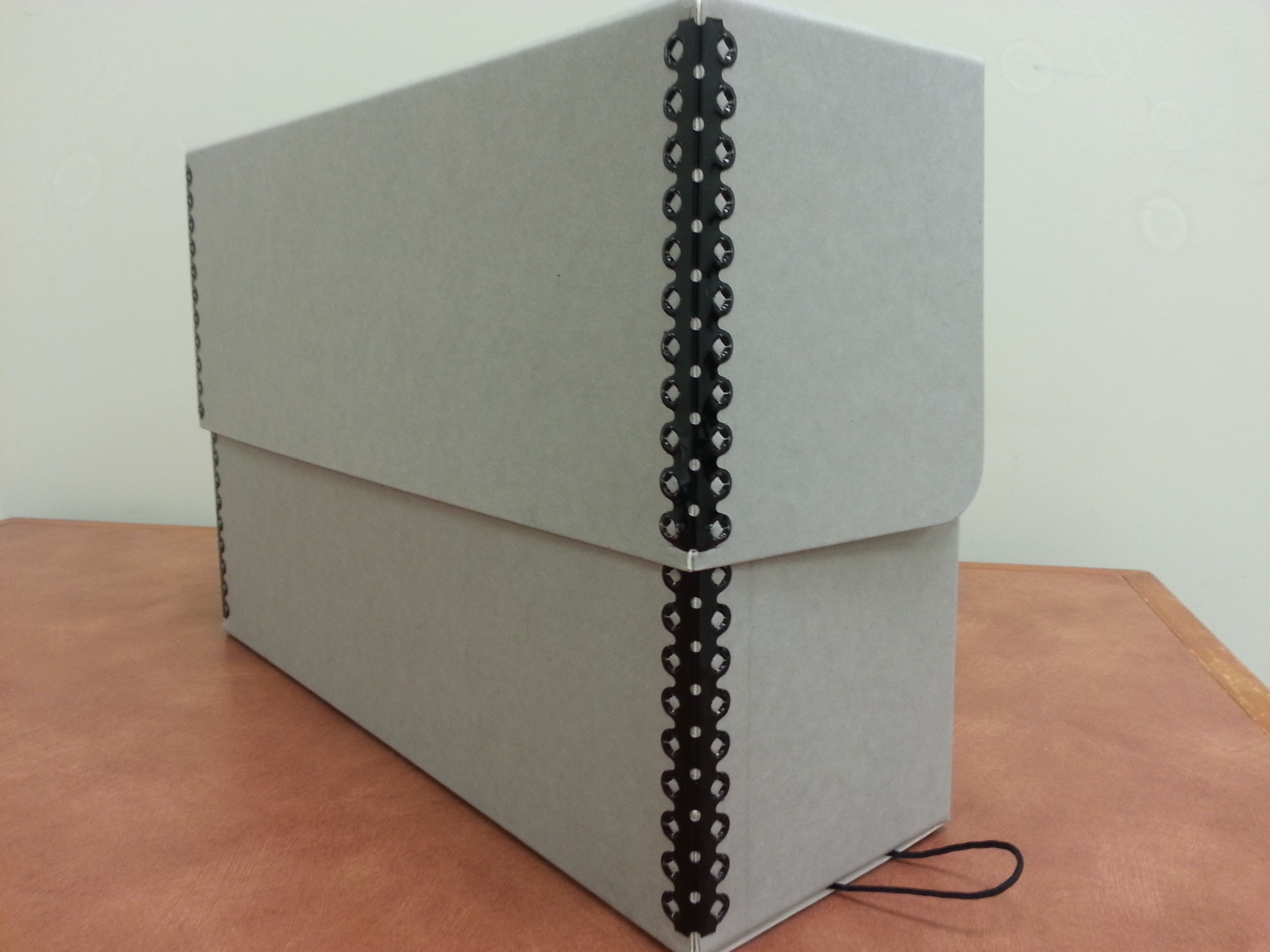 Angle view of a Hollinger box, commonly used in archives for document preservation. Note the protruding string, which makes it easy to pull the box off a shelf.